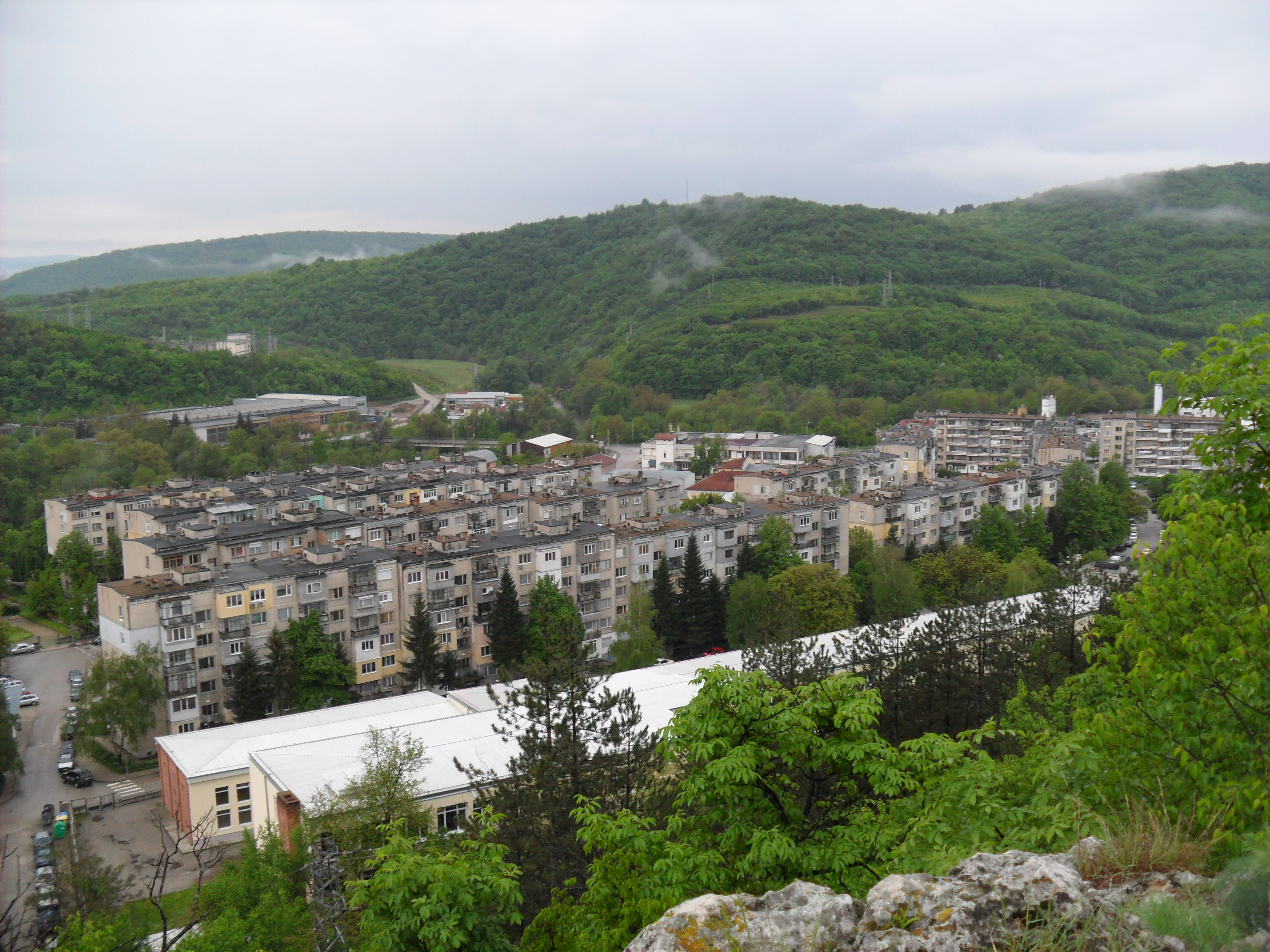 The neighborhood in Veliko Tarnovo in the south zone of the town